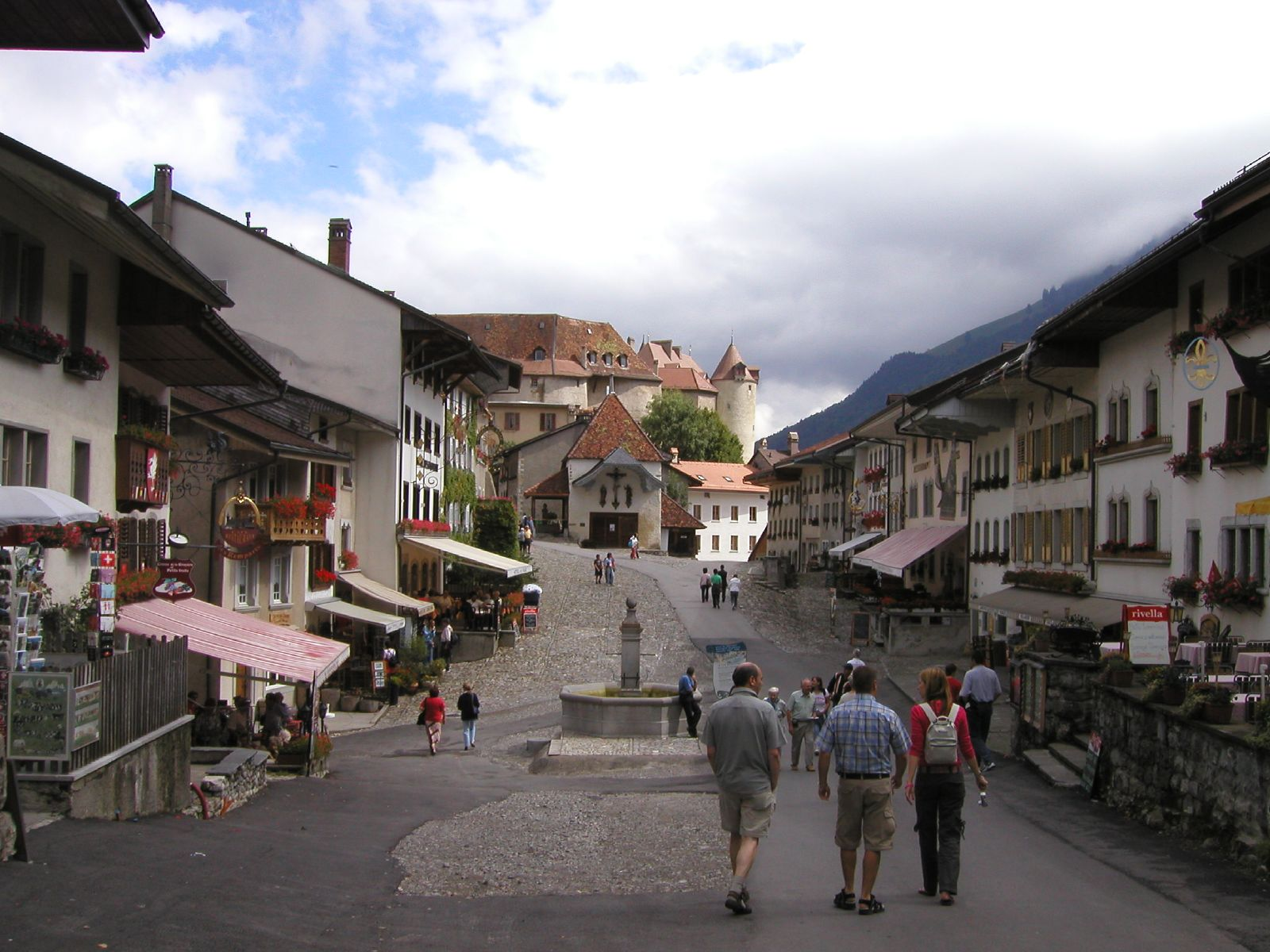 The Gruyères Medieval Town in Switzerland